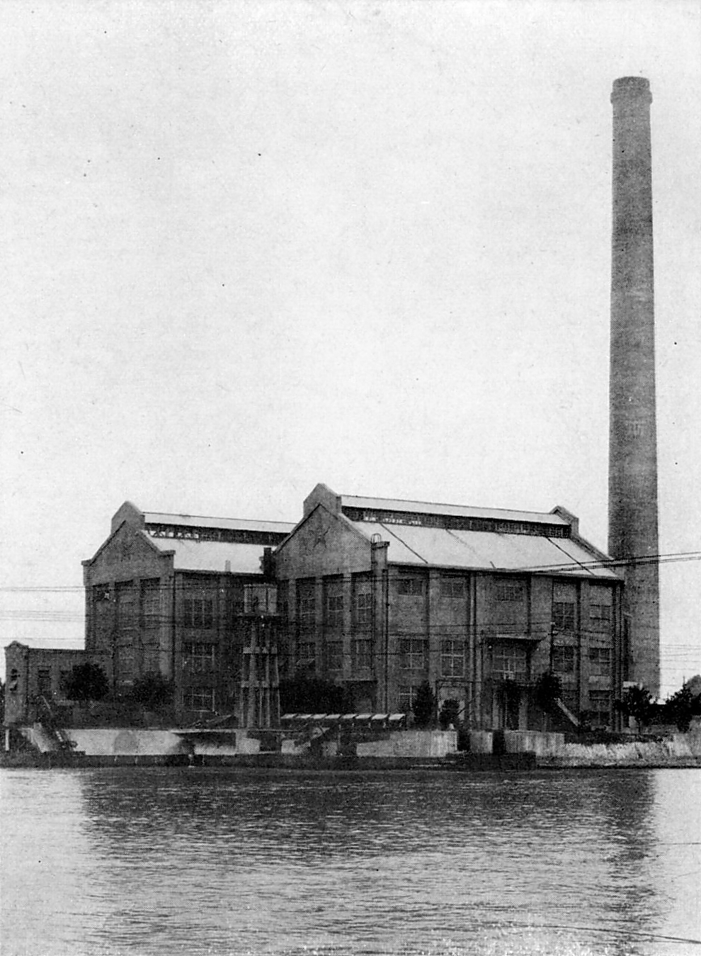 Kema thermal power station (1922 - 1944)